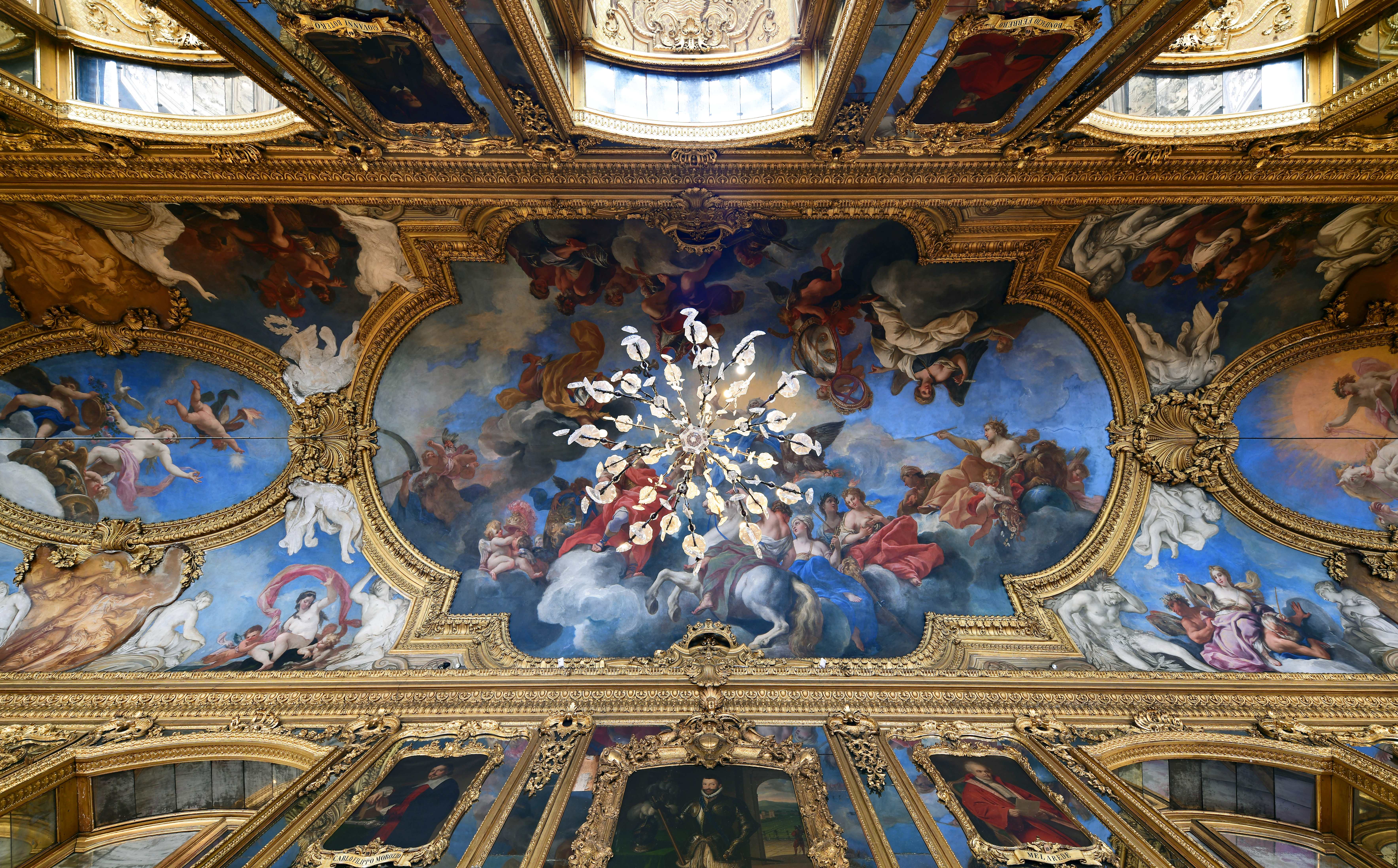 Royal Palace (Turin) - Galleria del Daniel - Ceiling -Central